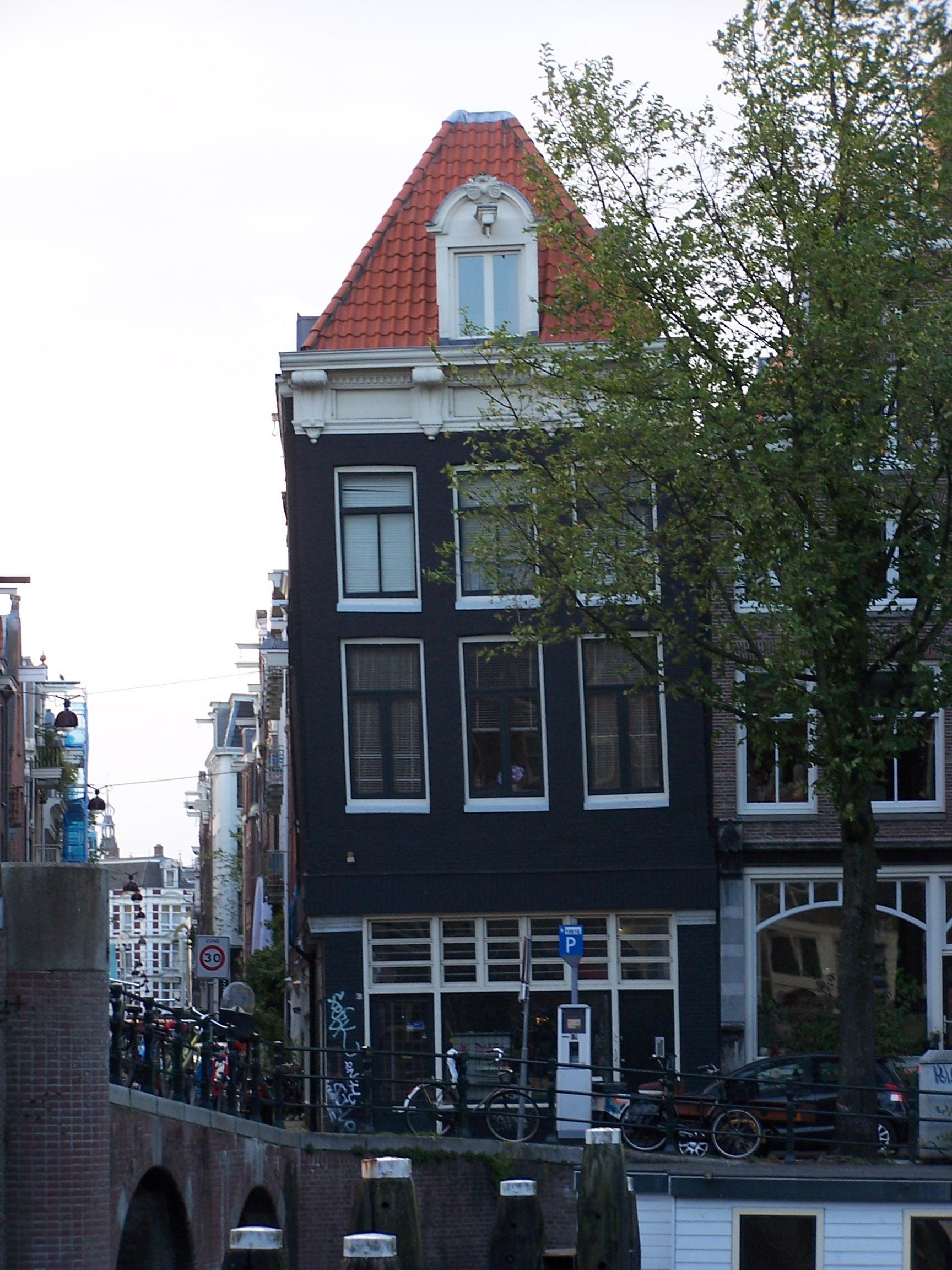 Oudeschans 38